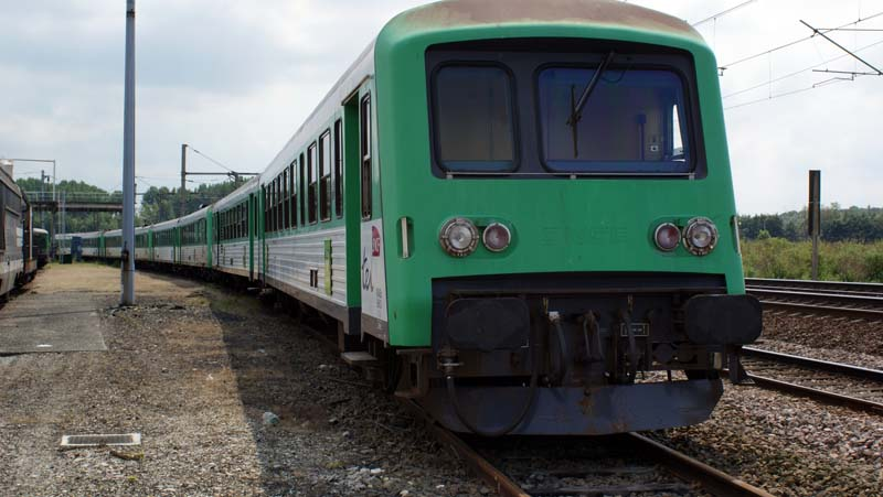 The 4 X4630 last parked with the deposit of Longueau (x4666-8663, x4716-8713, x4648-8437, x4659-8448)